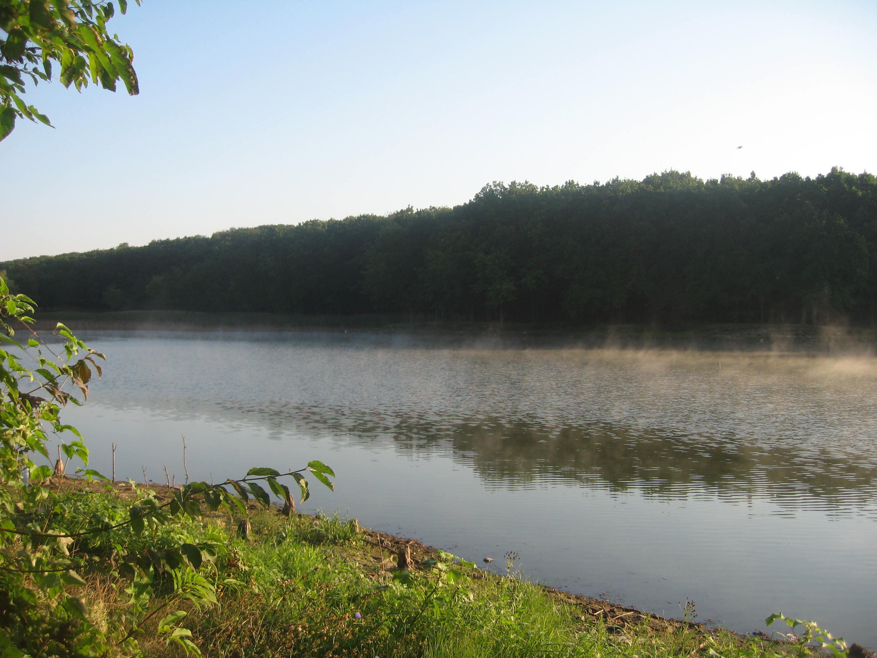 Barajul Ciric III